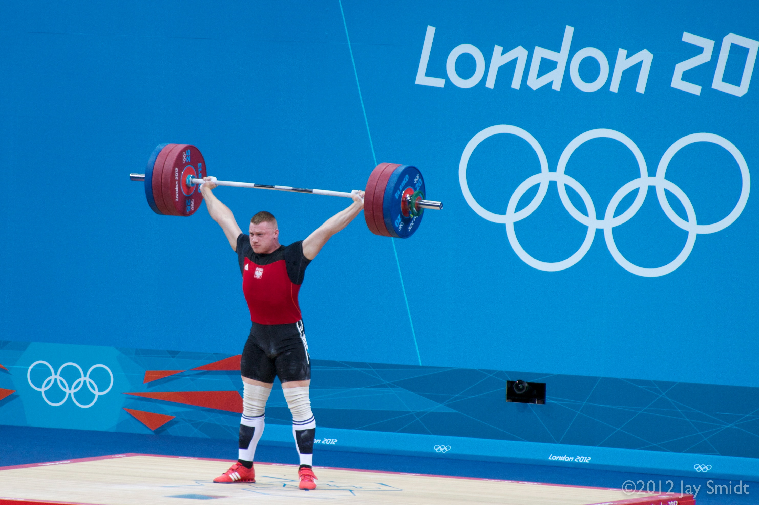 Tomasz Zielinski during 2012 Summer Olympics